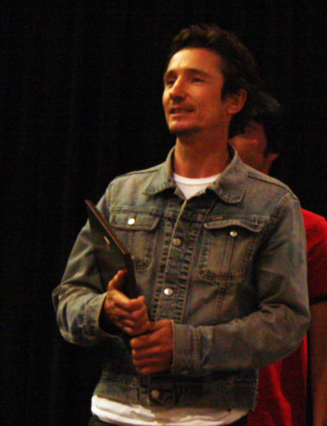 British actor Dominic Keating, DragonCon 2008